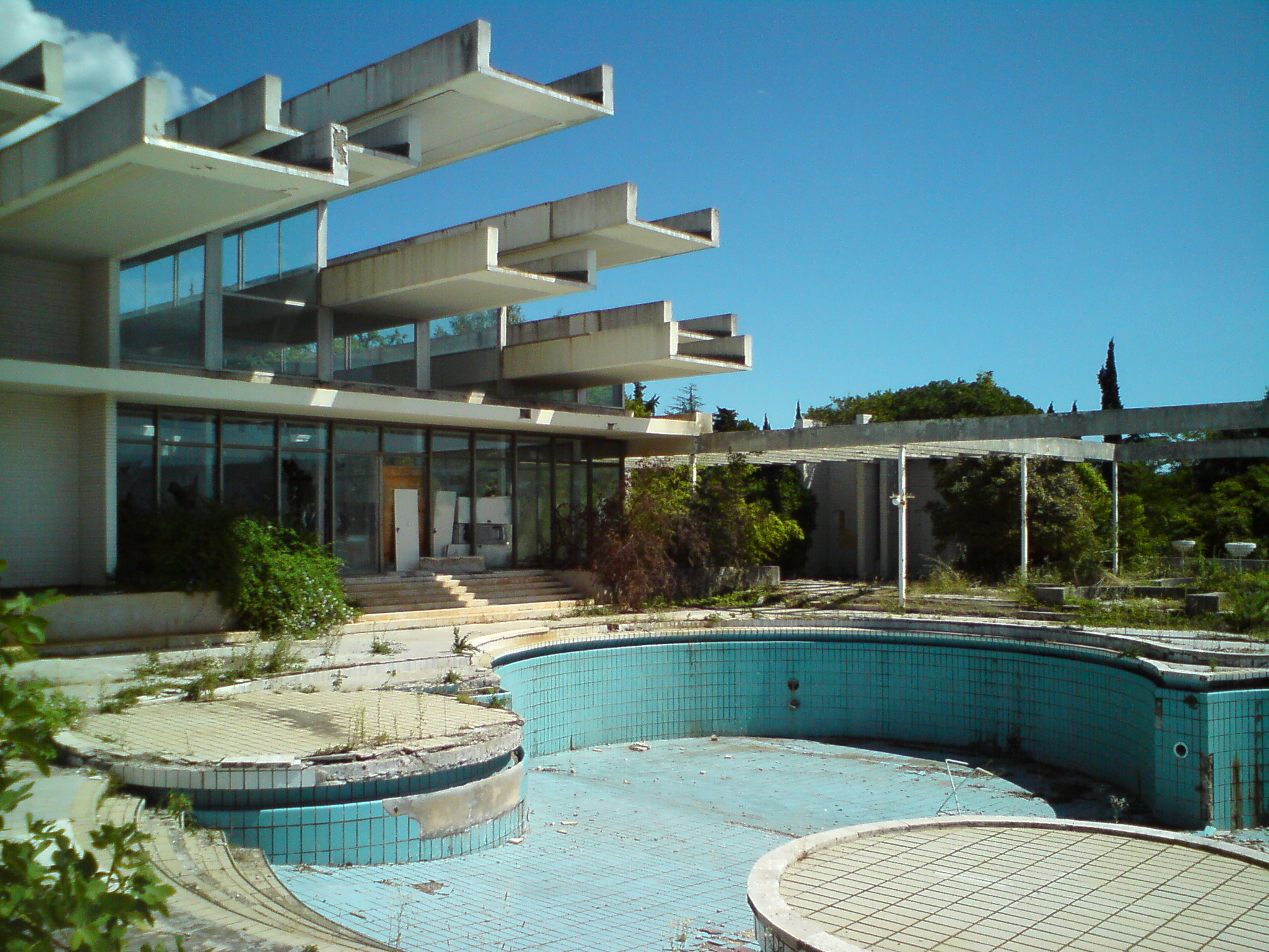 Reconstruction of the hotel complex Haludovo Malinska, Croatia. The first phase is - destruction.